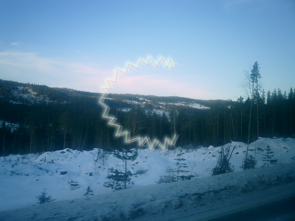 Migraine aura. Visual phenomenon before migraine headache. Flickering scotoma.